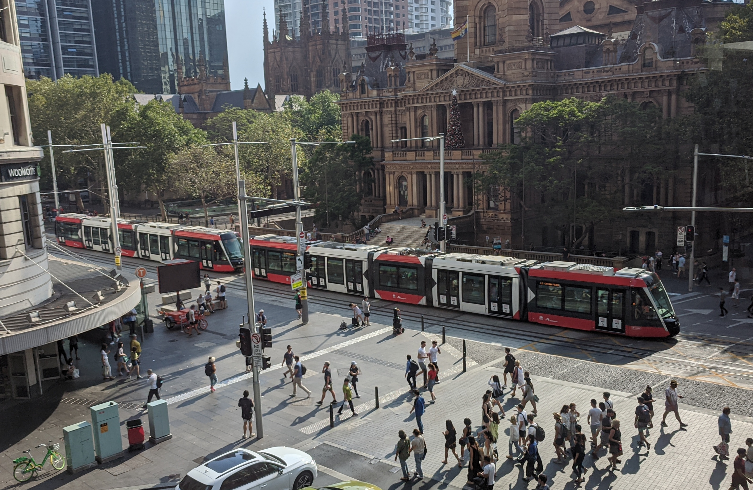 A tram passing Sydney Town Hall headed for Circular Quay